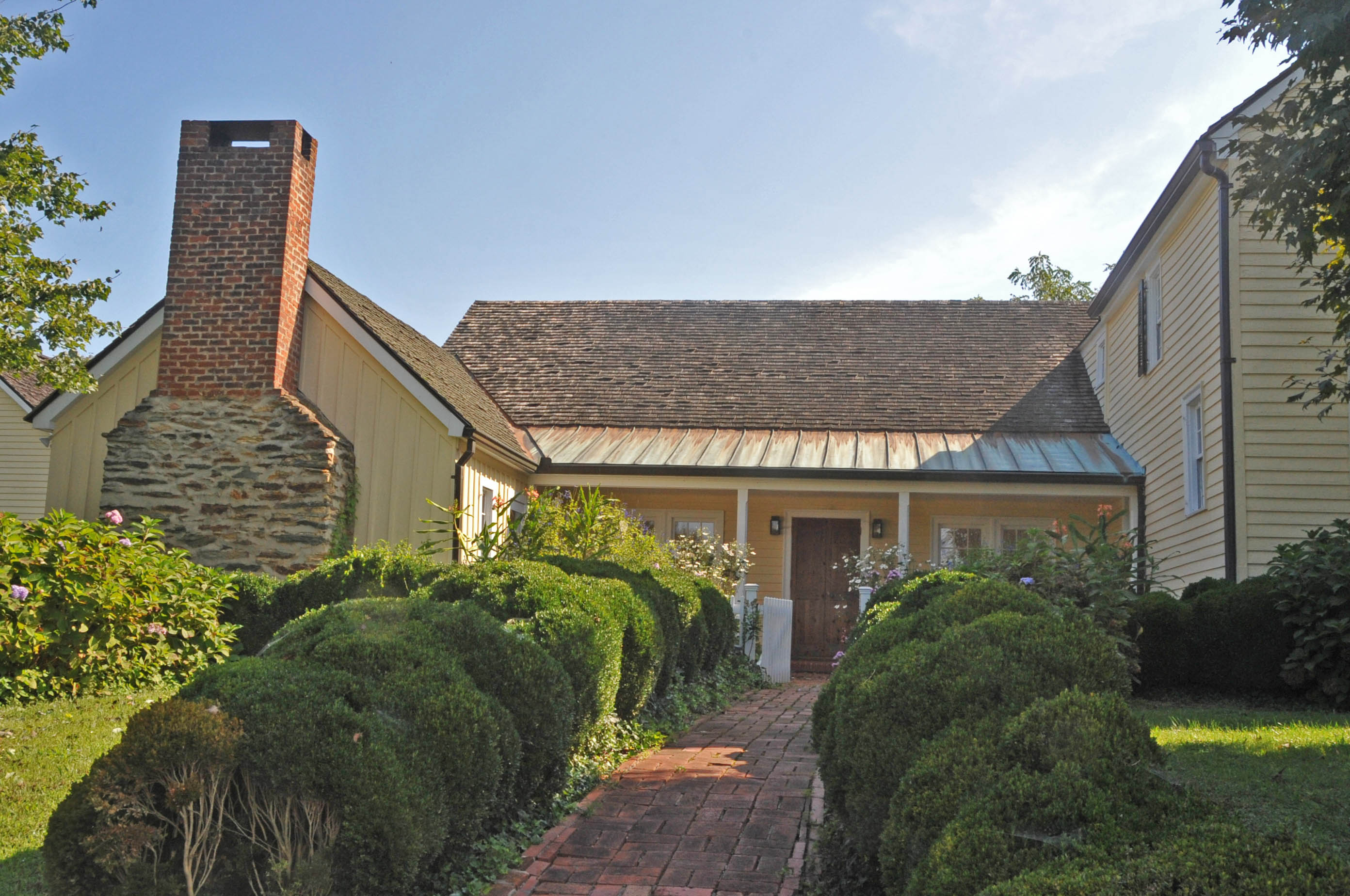 AKA MAPLE HILL; STARTED AS FAR BACK AS 1750 WITH A LOG CABIN BUT HAS BEEN ADDED TO EXTENSIVELY IN 1820 AND 1855 TO FORM A NOW GRACIOUS HOME